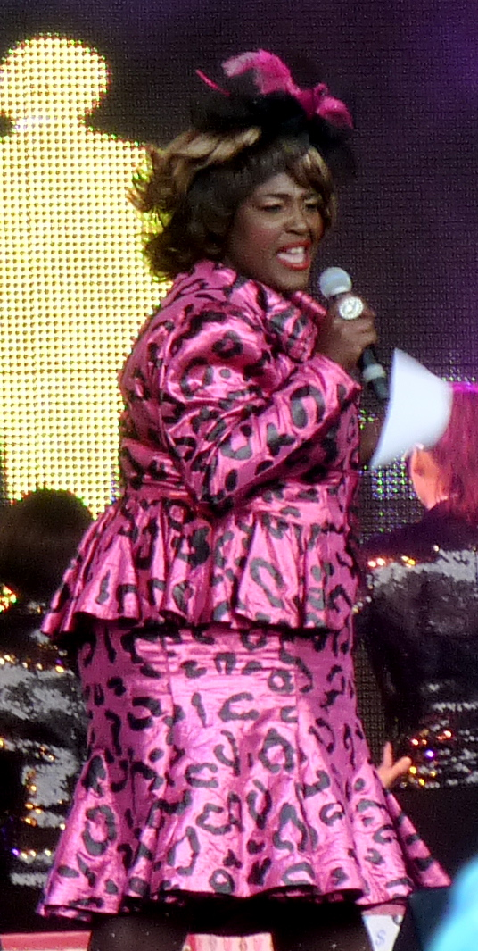 English actress Sharon D. Clarke in West End Live 2011